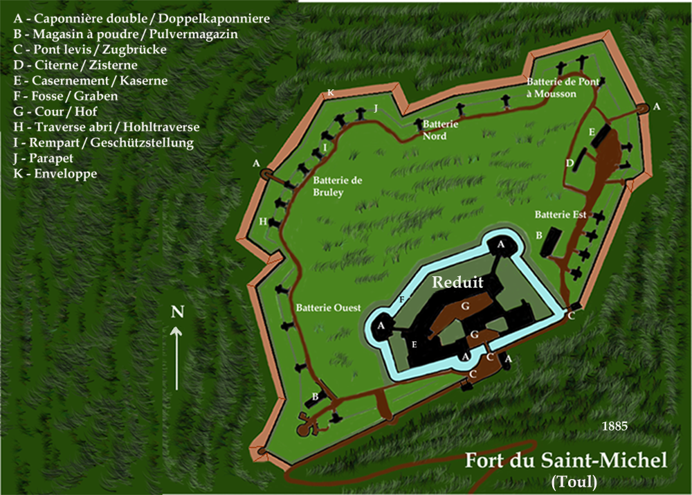 Fort du Saint Michel à Toul (Plan de 1885)